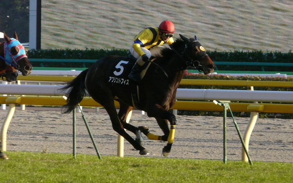 Apricot-fizz(horse)20111126